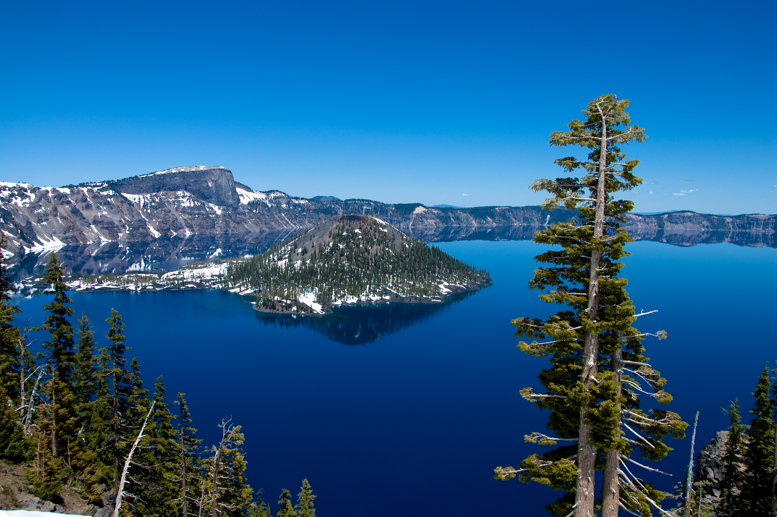 Crater Lake, Oregon, USA, with Tsuga mertensiana